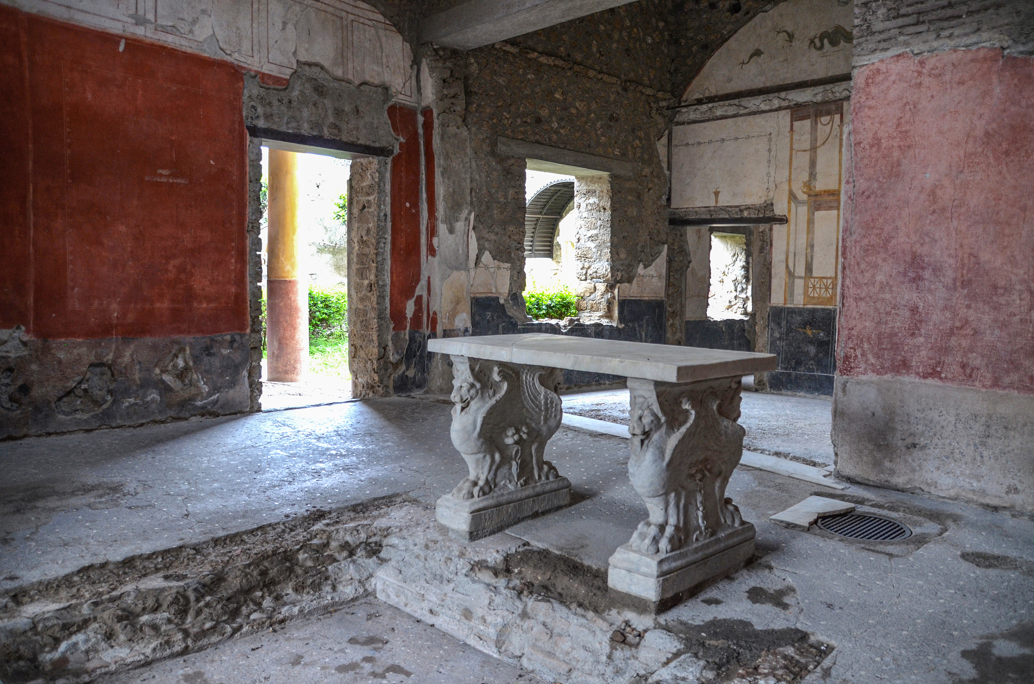 The atrium with impluvium and cubiculum of the House of the Prince of Naples, Pompeii, Italy 2nd century BCE - 1st century CE